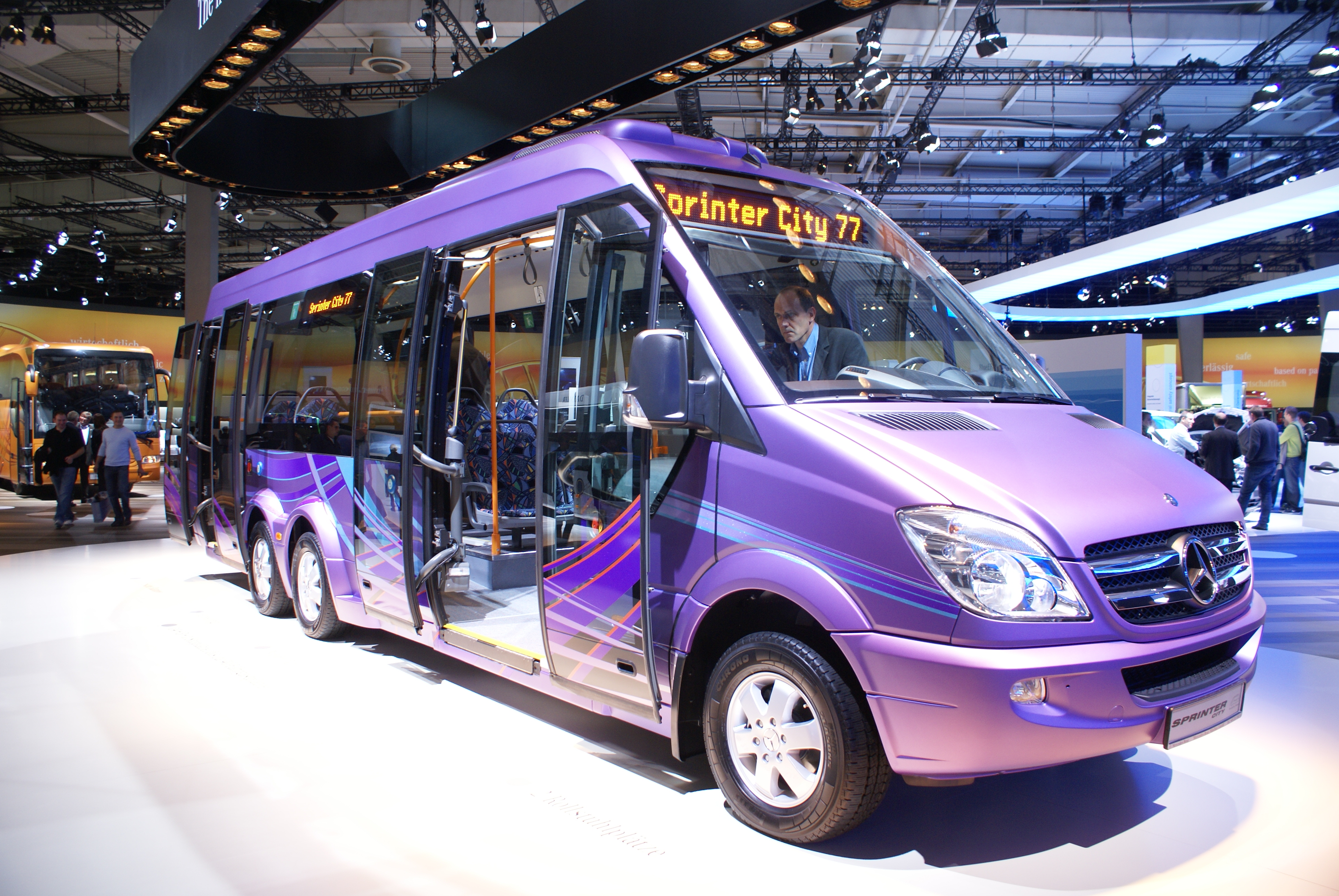 Mercedes-Benz Sprinter City 77 low-floor midibus at IAA 2010, Germany.